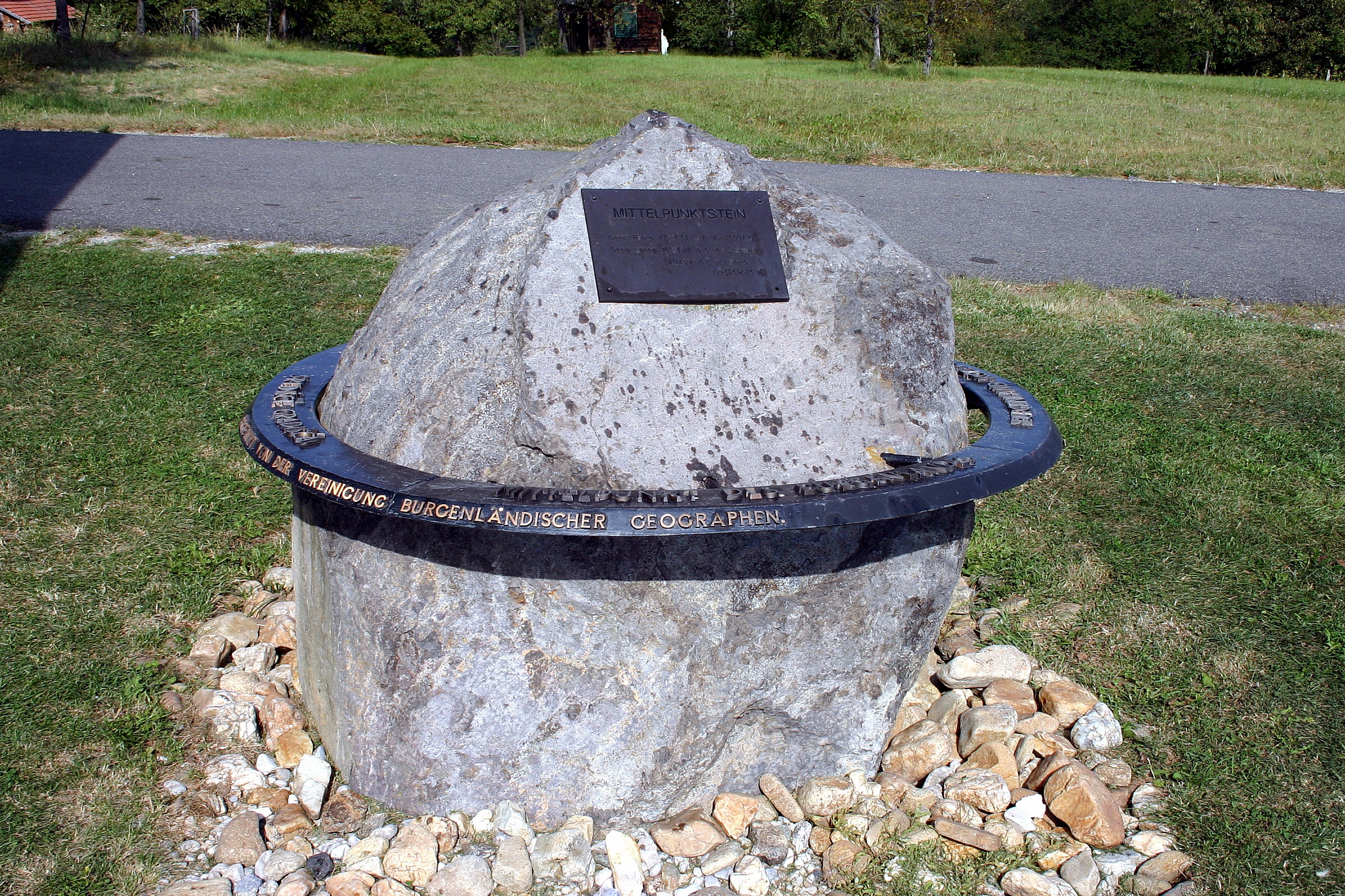 Frankenau-Unterpullendorf - Unterpullendorf, geographic middle of Burgenland